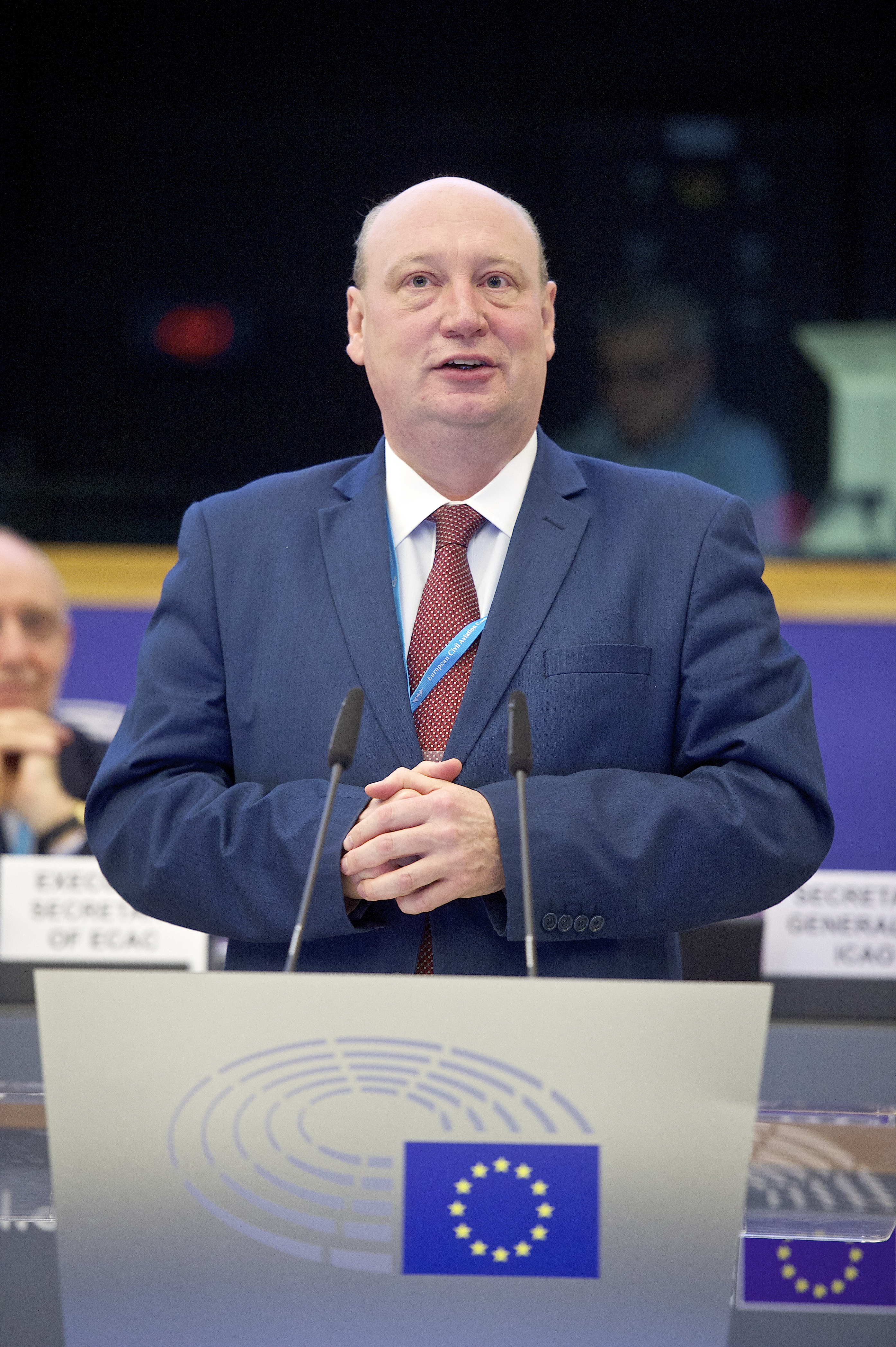 ECAC-CEAC 36th Plenary (triennial) Session of the European Civil Conférence, Strasbourg 10/11 July 2018.